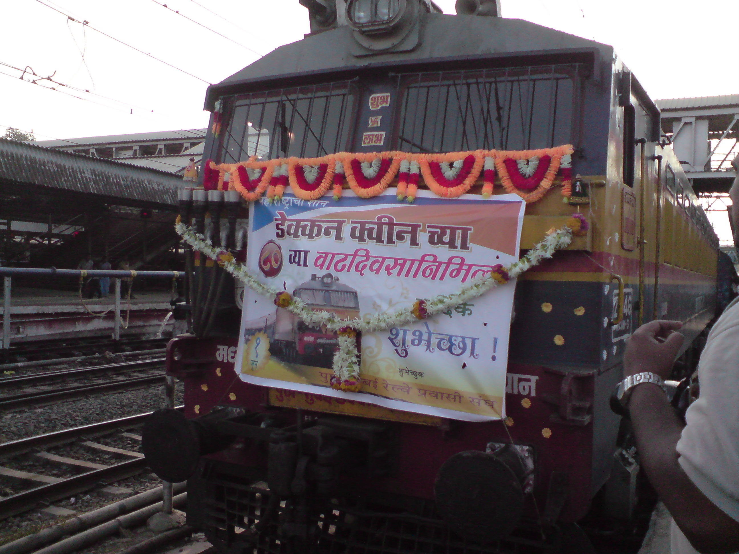 Author: Aamod Nerurkar, Source: Flickr, URL: License: I'm not a Flickr pro use so image might be deleted from Flickr, but anyways I own it and its under a CC-license. Please use my talk page for further details..